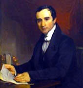 John Sergeant, US politician, Candidate for Vice President in 1832